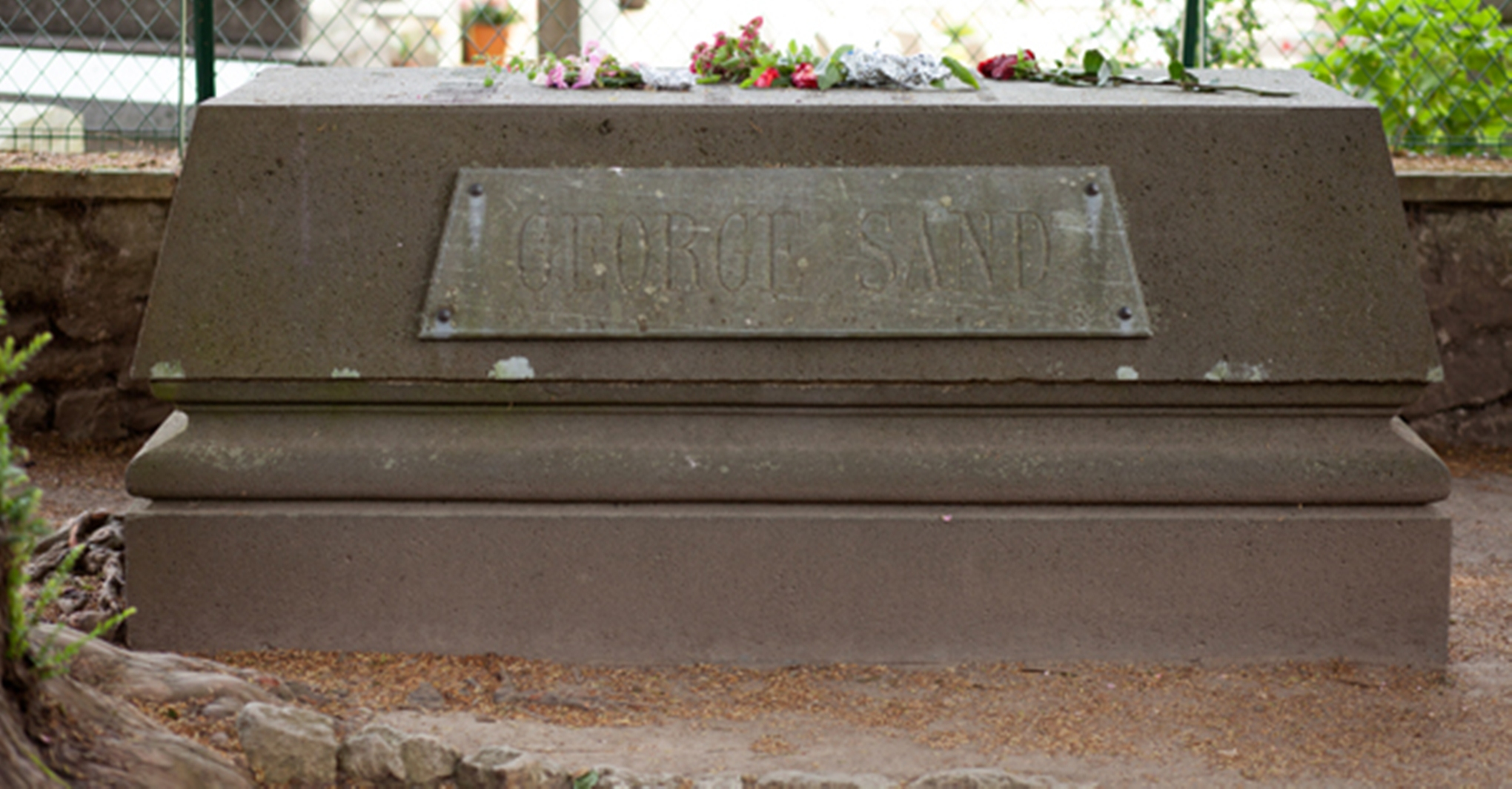 Tomb of George Sand in the domain of Nohant, in the Indre Department of France.